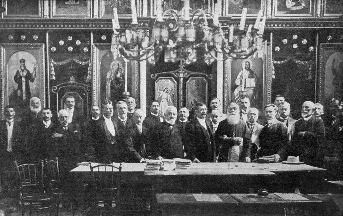 A picture taken inside the Greek Catholic Church in Şimleu Silvaniei during the Annual General Meeting of Astra, held between 7 to 9 August 1908 in Şimleu Silvaniei. Monographic sketch of Sălaj County was launched on the first day of the meeting, 7 August. In picture: Dr. L. Lemény, Emanuil Ungureanu, Partenie Cosma, Andrei Bârseanu, Alimpiu Barboloviciu, Octavian C. Tăslăuanu, I. F. Negruţiu, Dr. C. Popescu, Protop. Gherasim Domide, loan Vătășan, Gheorghe Pop de Băsești.